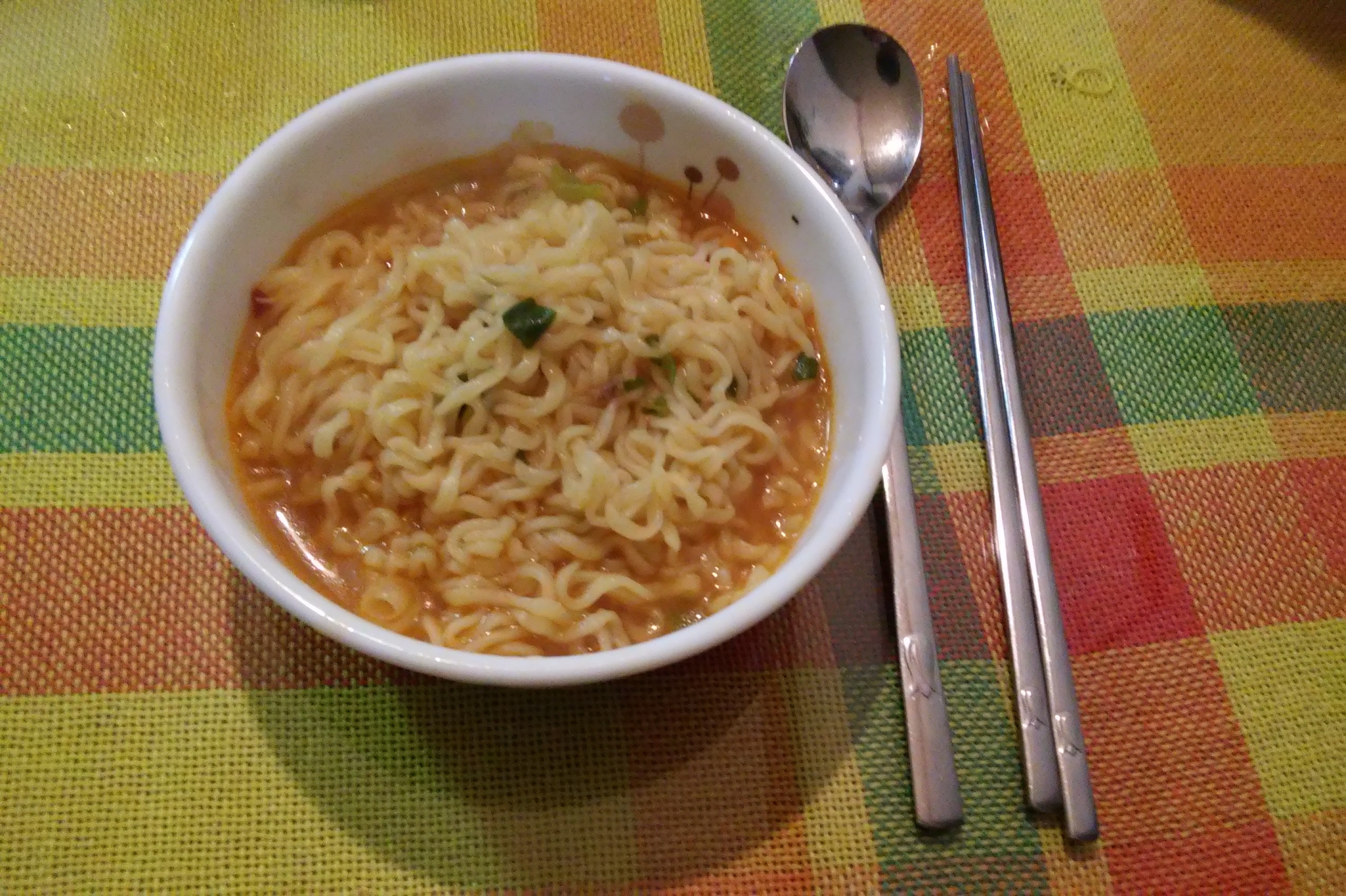 Korea Ramen